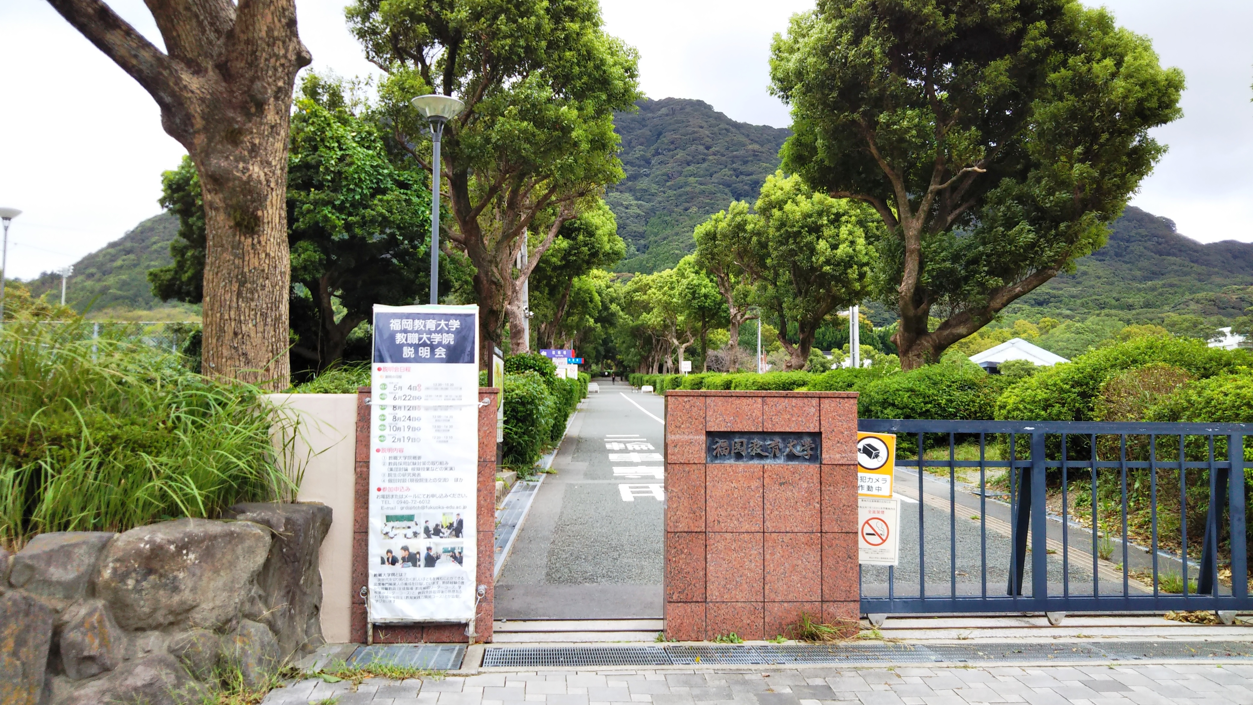 West entrance to the University of Teacher Education Fukuoka located in Munakata, Fukuoka, Japan.